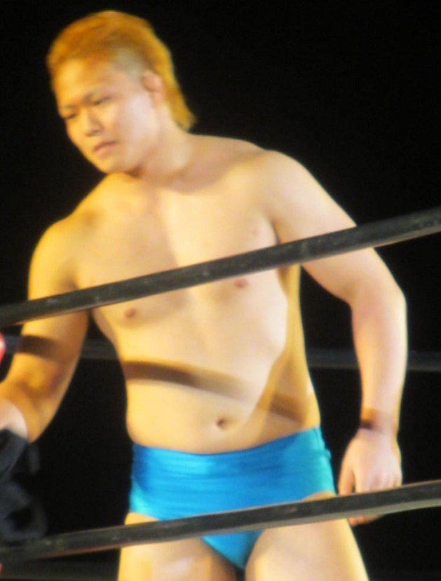 Japanese professional wrestler,Naoya Nomura. Dec 20 2015, BJW Yokohama Cultural Gymnasium.